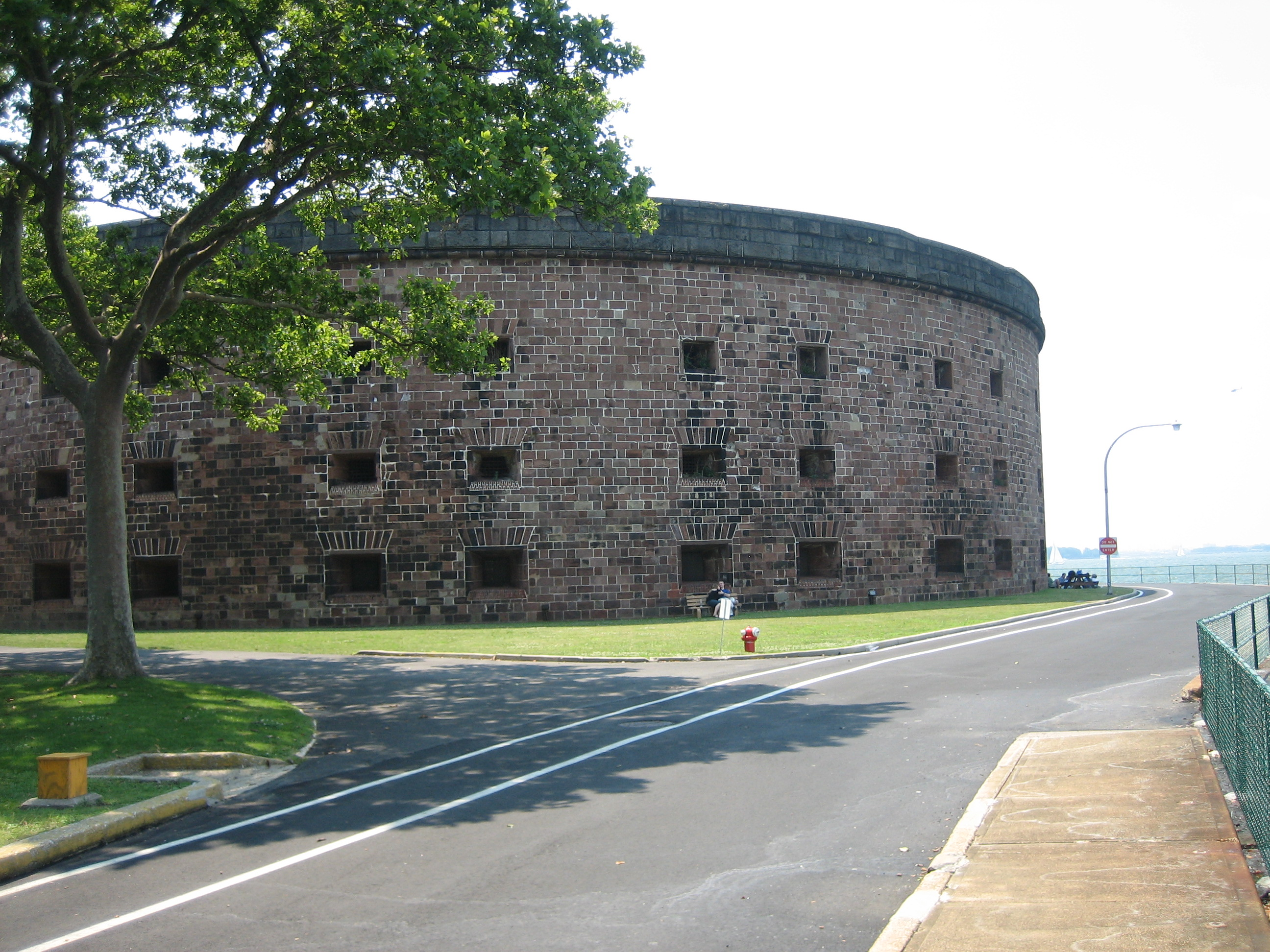 Castle Williams on Governor's Island in New York Harbor